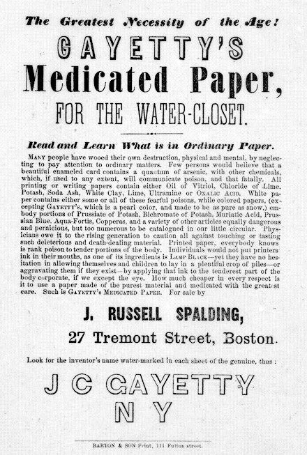 "The greatest necessity of the age! Gayetty's medicated paper for the water-closet. Read and learn what is in ordinary paper..." Ad advertisement for the first commercially produced toilet paper.